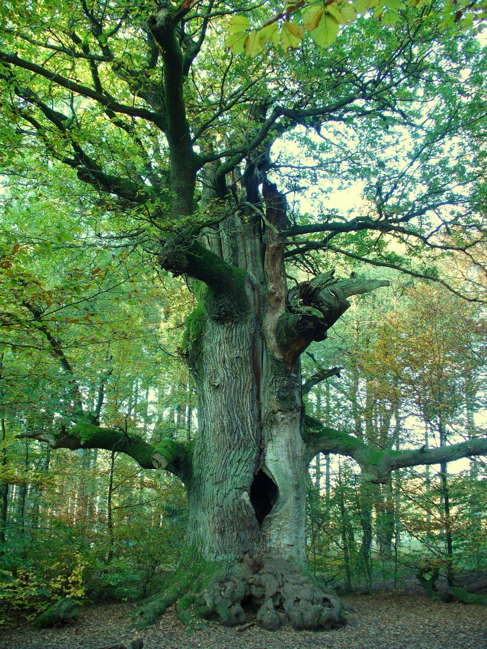 Old oak-tree from forest-grazing times called "Kamineiche" (chimney oak) in "Urwald Sababurg" forest reserve, Reinhardswald north of Kassel, Hessen, Germany